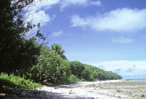 Looking south along a beach on Merir's west coast, Merir Island, Southwest Islands of Palau.